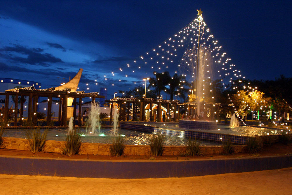 image form city Poá